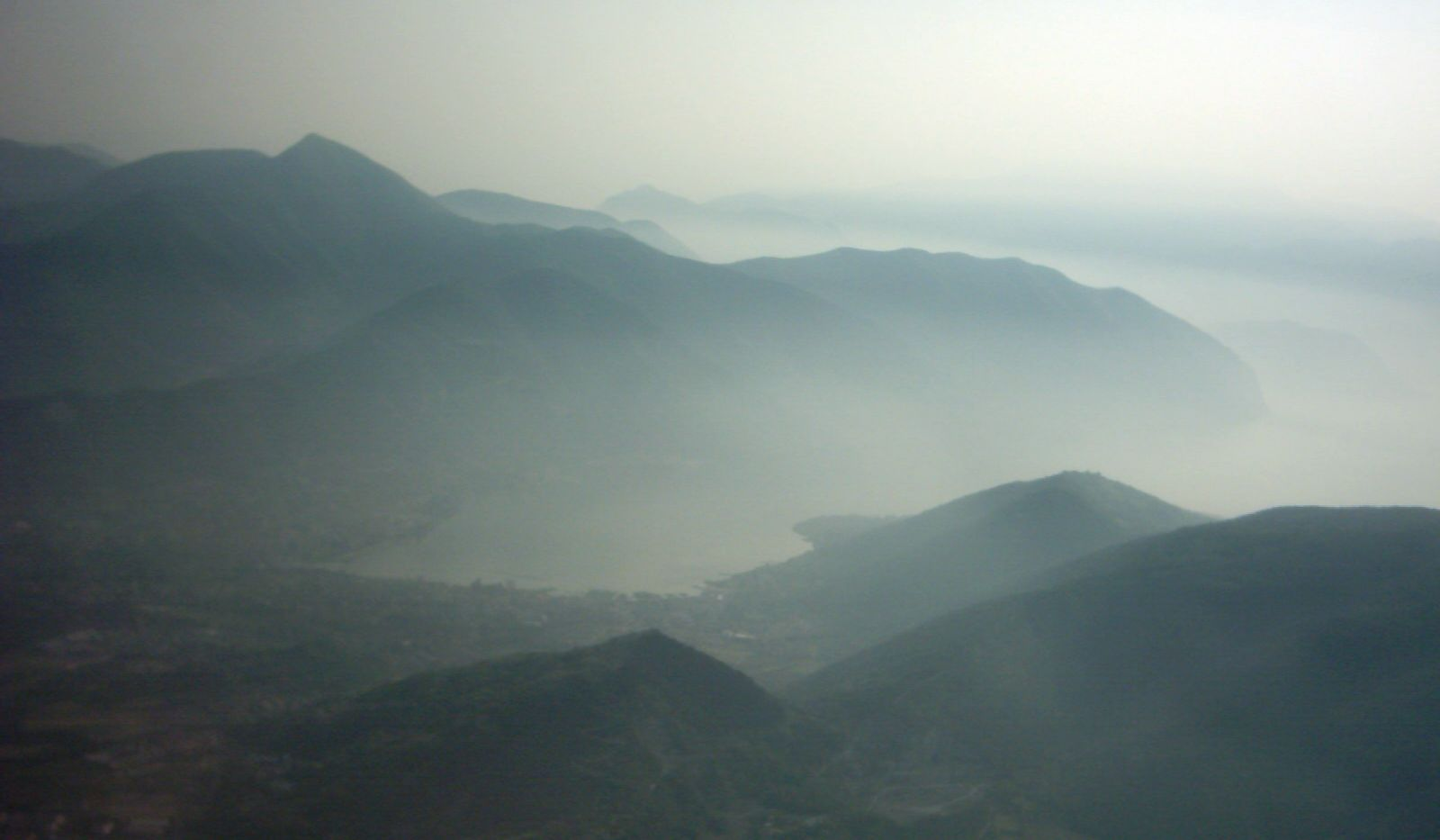 Aerial view of Lake Iseo, Lombardy, Italy, with surrounding mountains. The towns at the southern end of the lake are Sarnico (left) and Paratico (right), further north the island Monte Isola can be seen. The picture was taken in the morning from a plane that was about to land at Orio al Serio Airport in Bergamo.